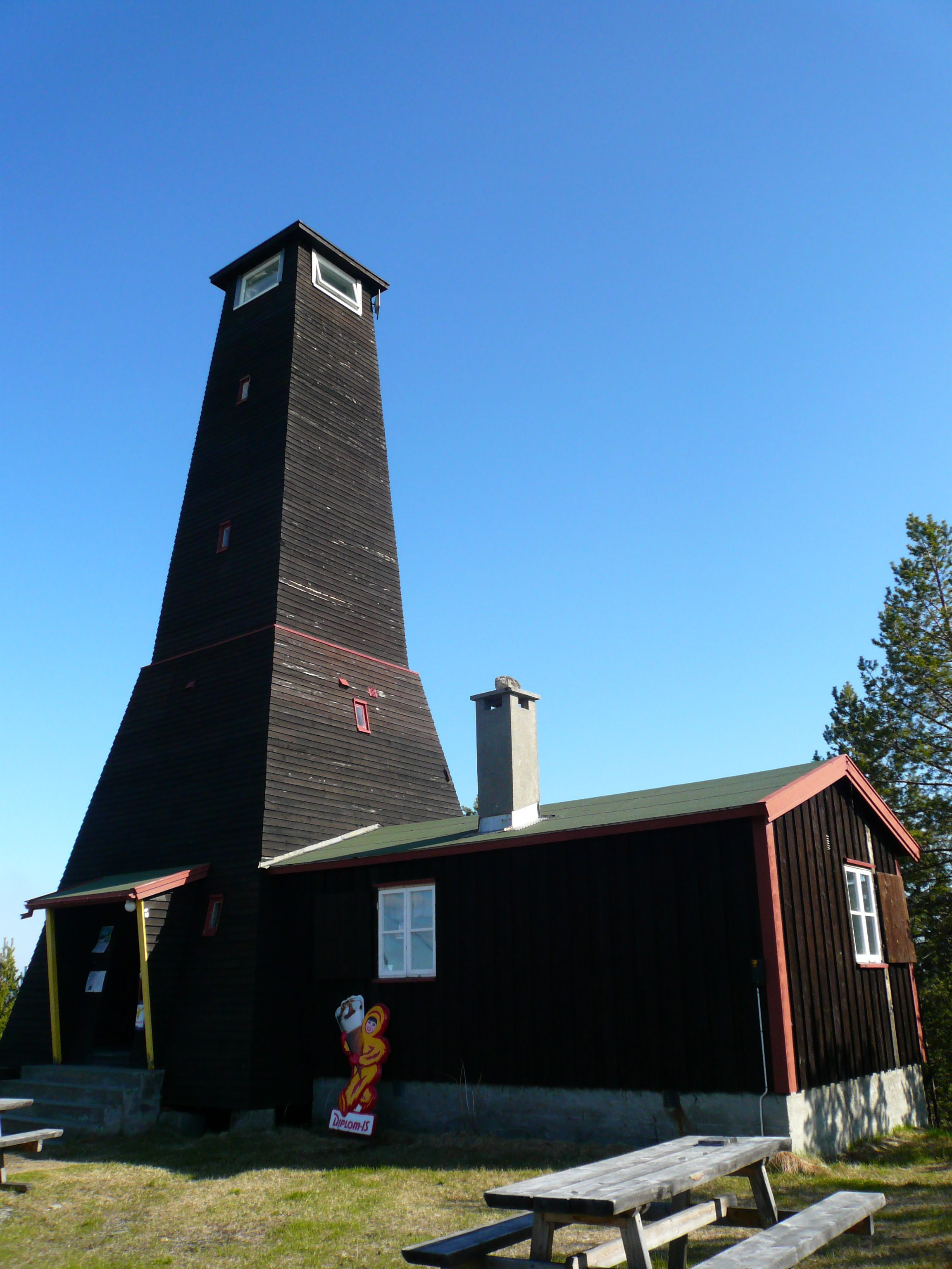 Vakttårn og utkikkstårn ved grensen mellom Norge og Russland.